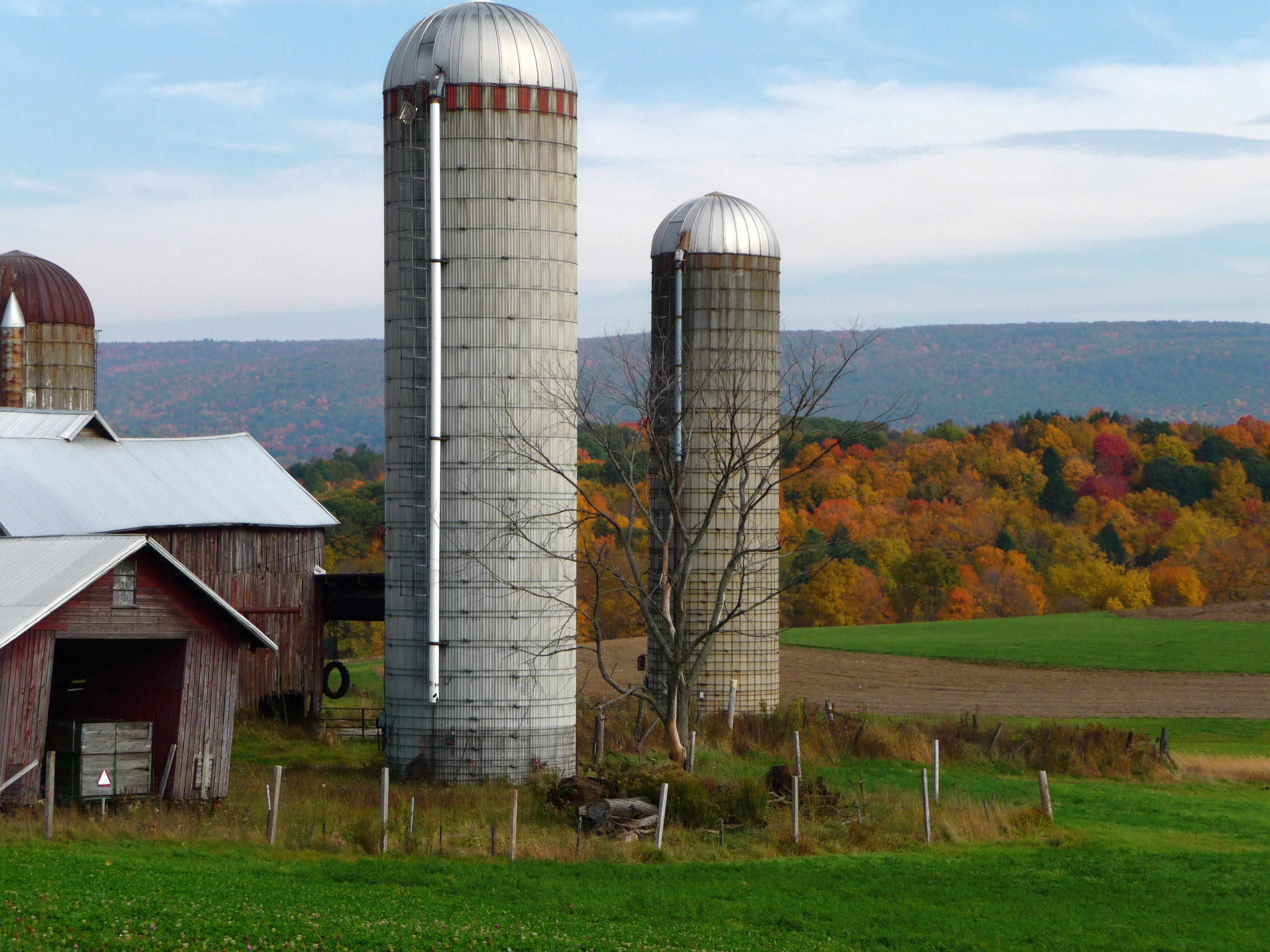 Grain silos on a dairy farm in Brunswick, New York, United States during autumn